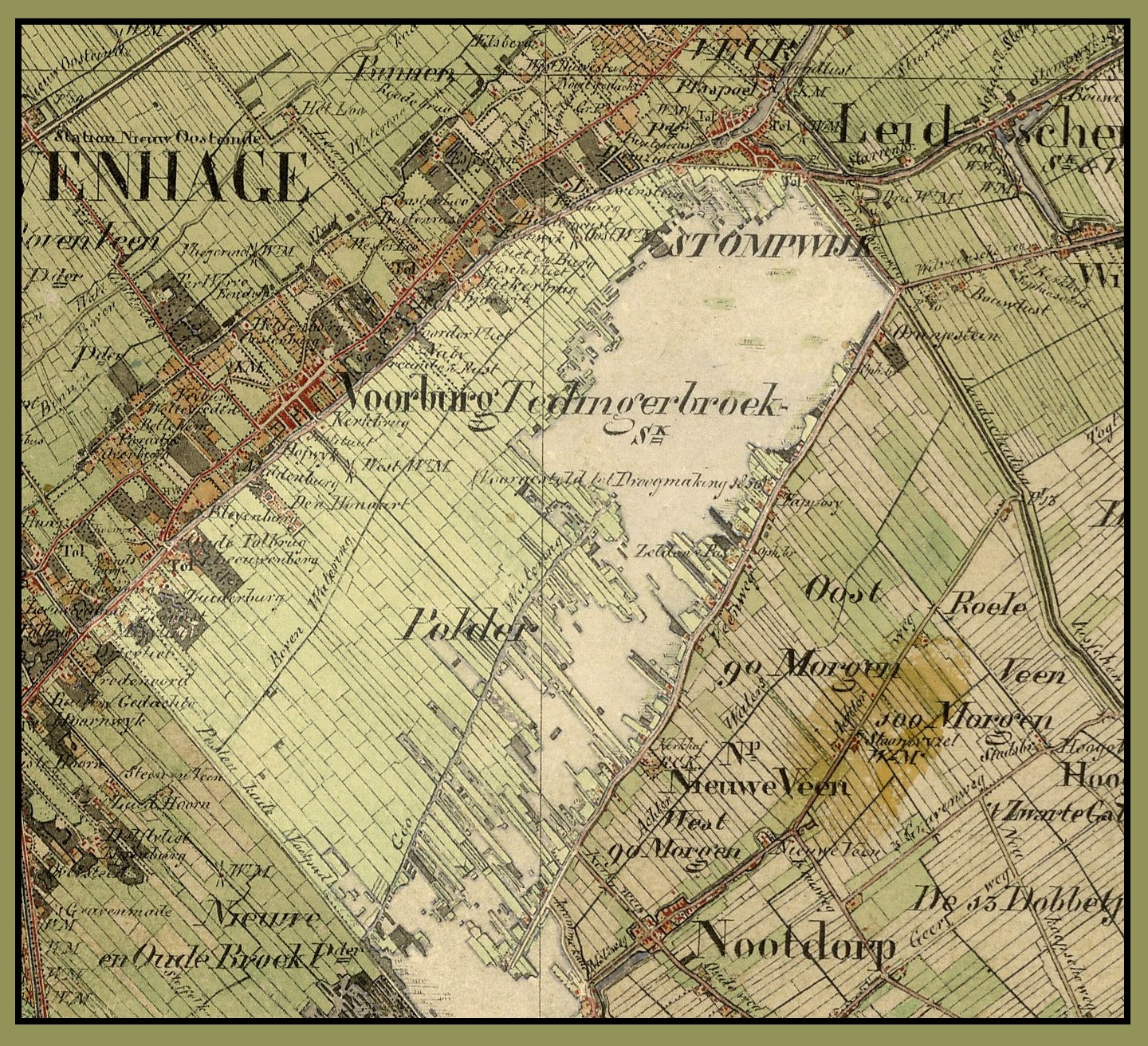 The Tedingerbroek Polder between The Hague and Delft in 1850 (part of a map of the Province of South Holland, Netherlands). This area is now completely urbanized and densely populated.